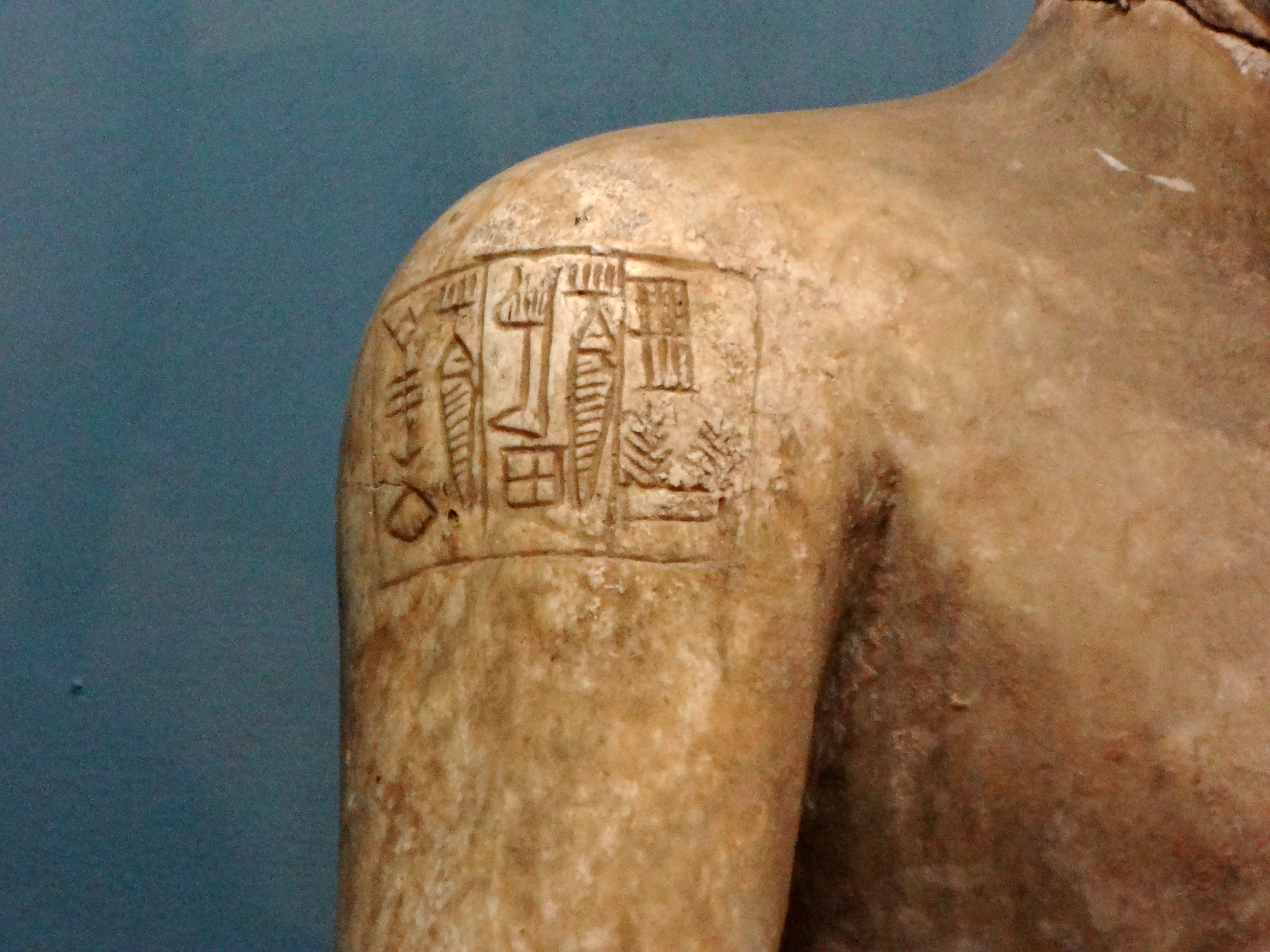 The inscription on the statue's shoulder introduces it as the "King of Adab" and the statue is stated to have been devoted to E-shar, the temple of the chief god of Adab. Lugaldalu, who was not listed in the Sumerian king lists, is thought to be a governor of Adab in circa mid-3rd millennium BC. This is one of the 'deputy priest' statues placed in the temples according to the Sumerian belief. Those statues continued to express gratitude to the god on behalf of persons they were representing, when they were out of the temple.